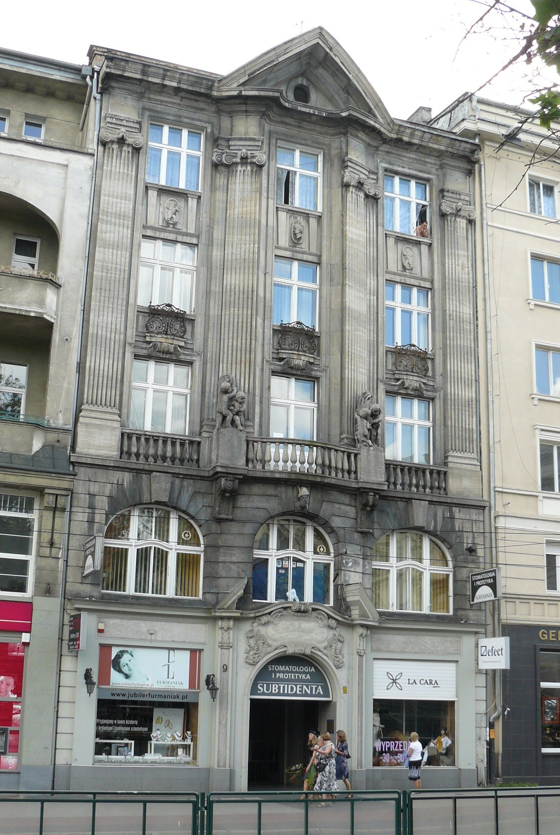 Wloscianski Bank in Poznan, Plac Wolnosci.